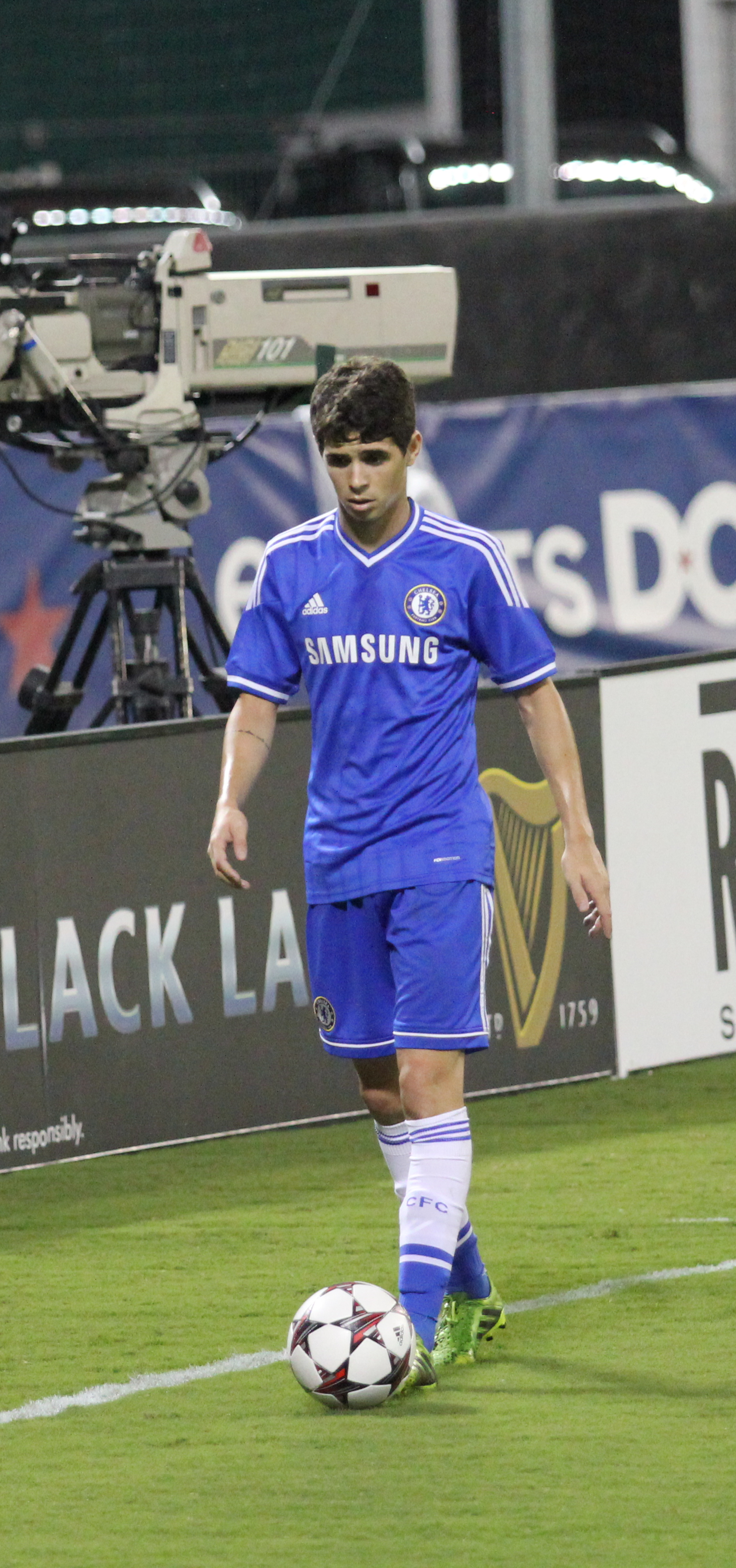 Chelsea vs. AS Roma at RFK Stadium, Washington, DC August 10, 2013